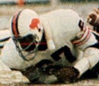 Buffalo Bills guard Reggie McKenzie (guard) pictured in an offensive play during a December 16, 1973 game against the New York Jets at Shea Stadium.